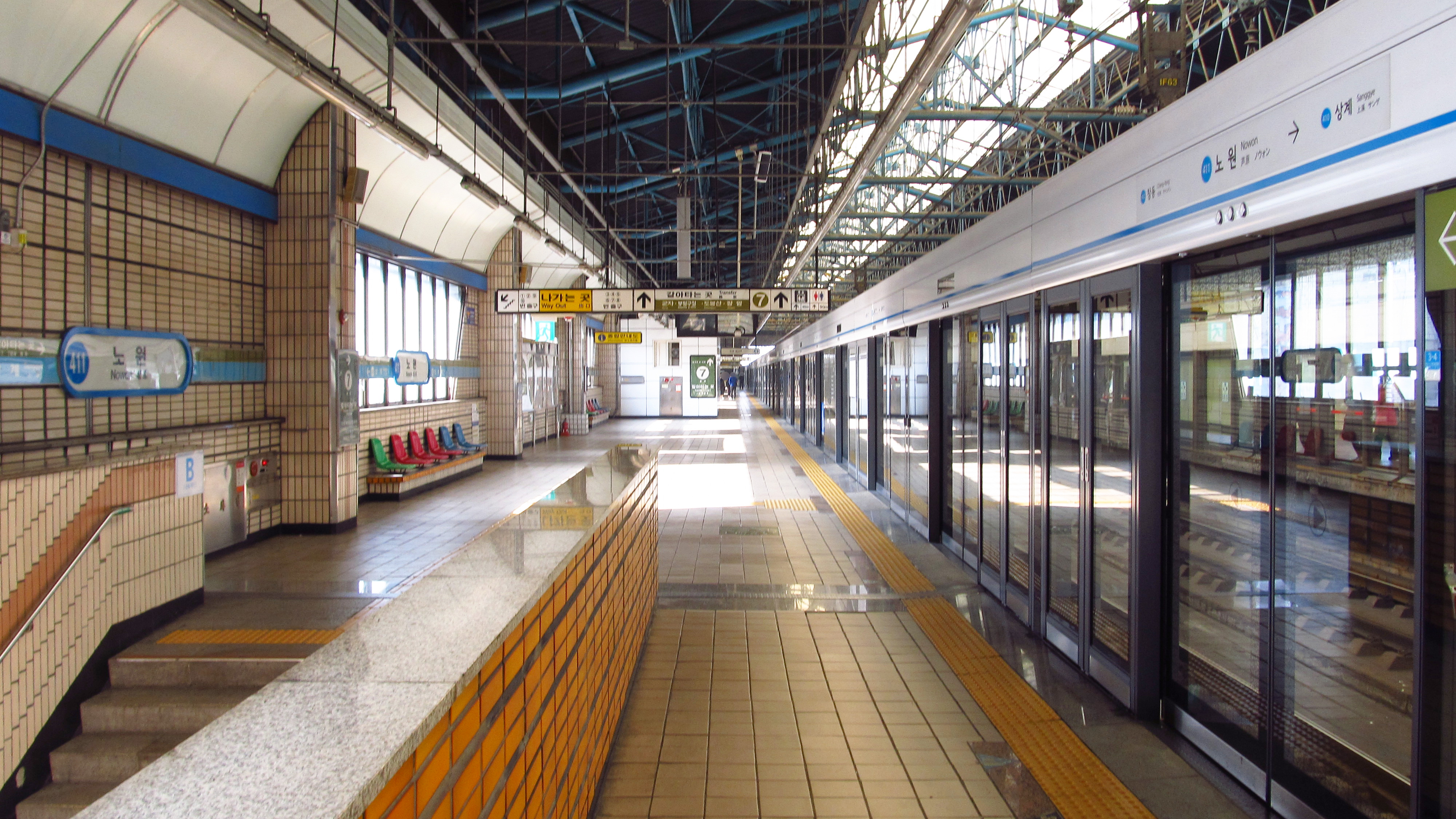 The platform at Nowon Station on Seoul Subway Line 4 in Nowon-gu, Seoul, Republic of Korea(South Korea)